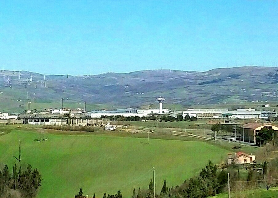 Ariano Irpino (Italy), manufacturing zone